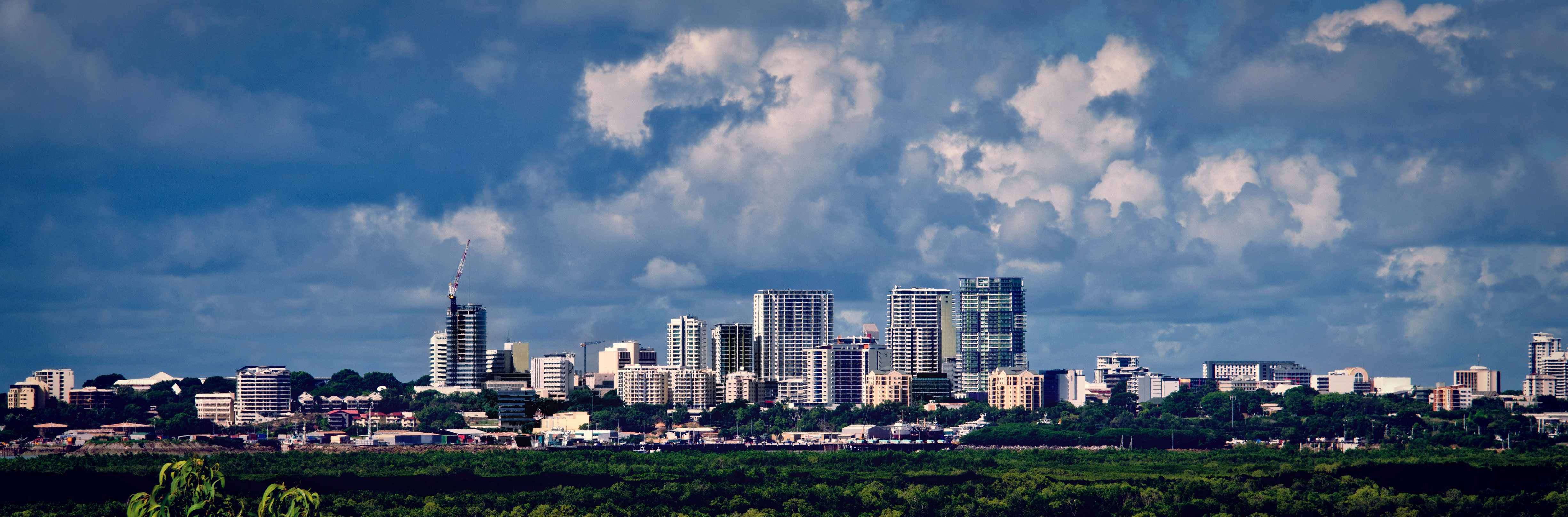 Darwin skyline